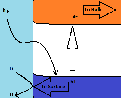 An electron is excited from the valence band to the conduction band and migrates towards the bulk of the solid or a counter electrode. the hole migrates to the surface where it oxidizes a redox couple D-/D